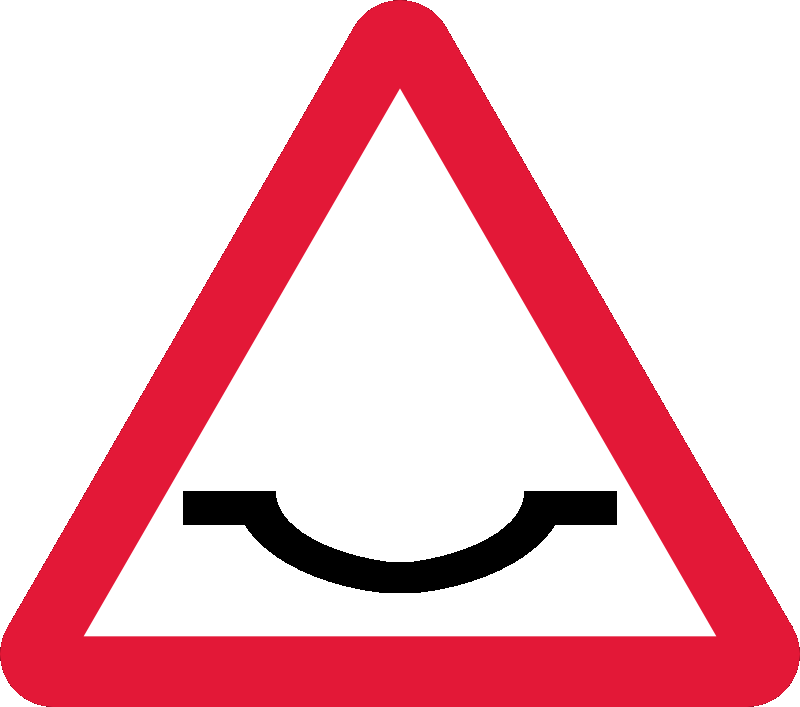 Road sign for hidden dip or dish drain used in the British Overseas Territory of Anguilla.